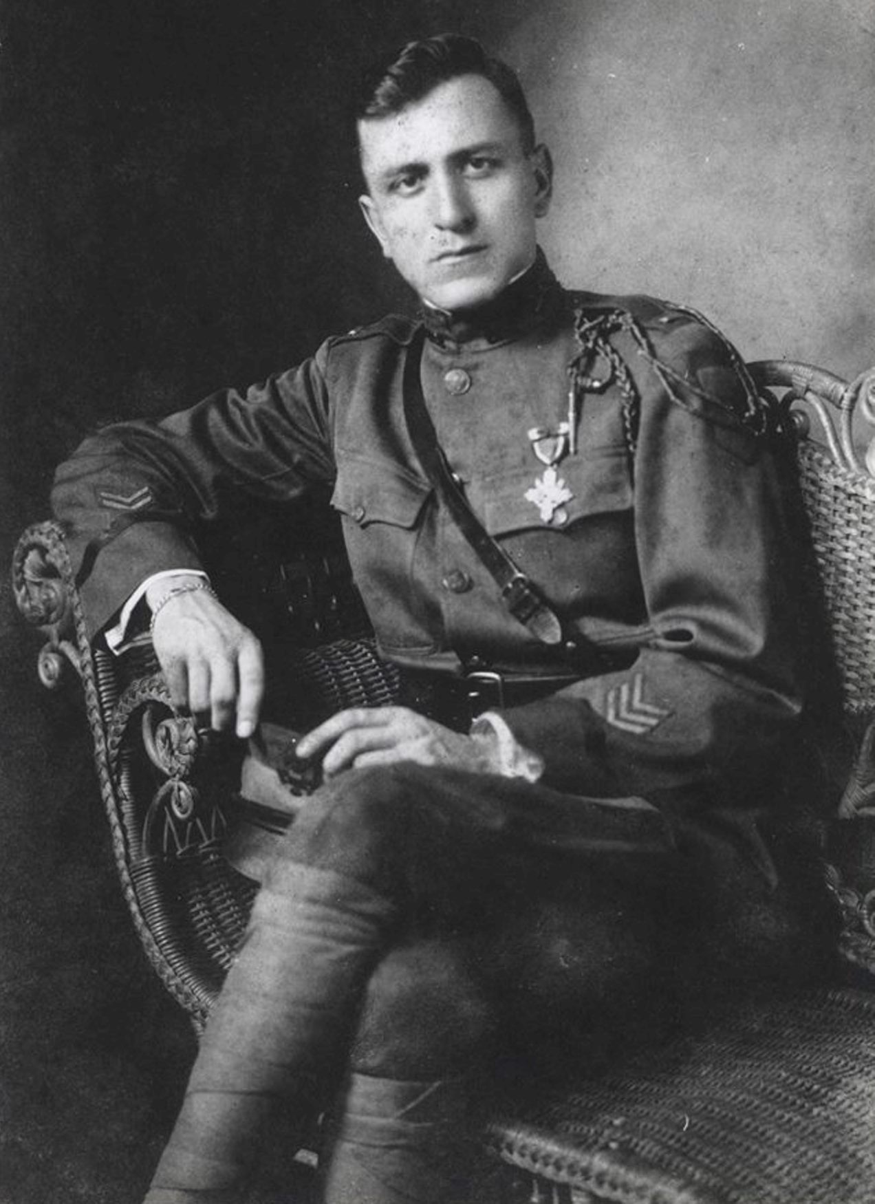 A period photograph of Medal of Honor recipient Second Lieutenant Samuel Iredell Parker seen wearing the Distinguished Service Cross and French Fourragère. Note, too, the two wound chevrons on his right cuff as well as the 1st Division patch on his left shoulder.